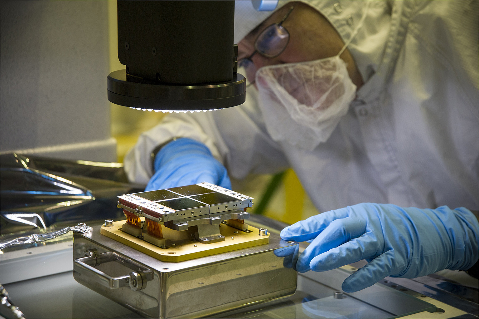 Dressed in a cleanroom suit to prevent contamination, Optics Technician Jeff Gum aligns a replacement Focal Plane Assembly (FPA) with a powerful three-dimensional microscope at NASA's Goddard Space Flight Center in Greenbelt, Md. This FPA will be installed on the Near Infrared Camera (NIRCam) instrument, which has unique components that are individually tailored to see in a particular infrared wavelength range. By using the microscope, Gum ensures the FPA detectors are characterized and ready for installation onto NIRCam, the James Webb Space Telescope's primary imager that will see the light from the earliest stars and galaxies that formed in the universe. Credit: NASA/Goddard/Chris Gunn NASA image use policy. NASA Goddard Space Flight Center enables NASA’s mission through four scientific endeavors: Earth Science, Heliophysics, Solar System Exploration, and Astrophysics. Goddard plays a leading role in NASA’s accomplishments by contributing compelling scientific knowledge to advance the Agency’s mission. Follow us on Twitter Like us on Facebook Find us on Instagram